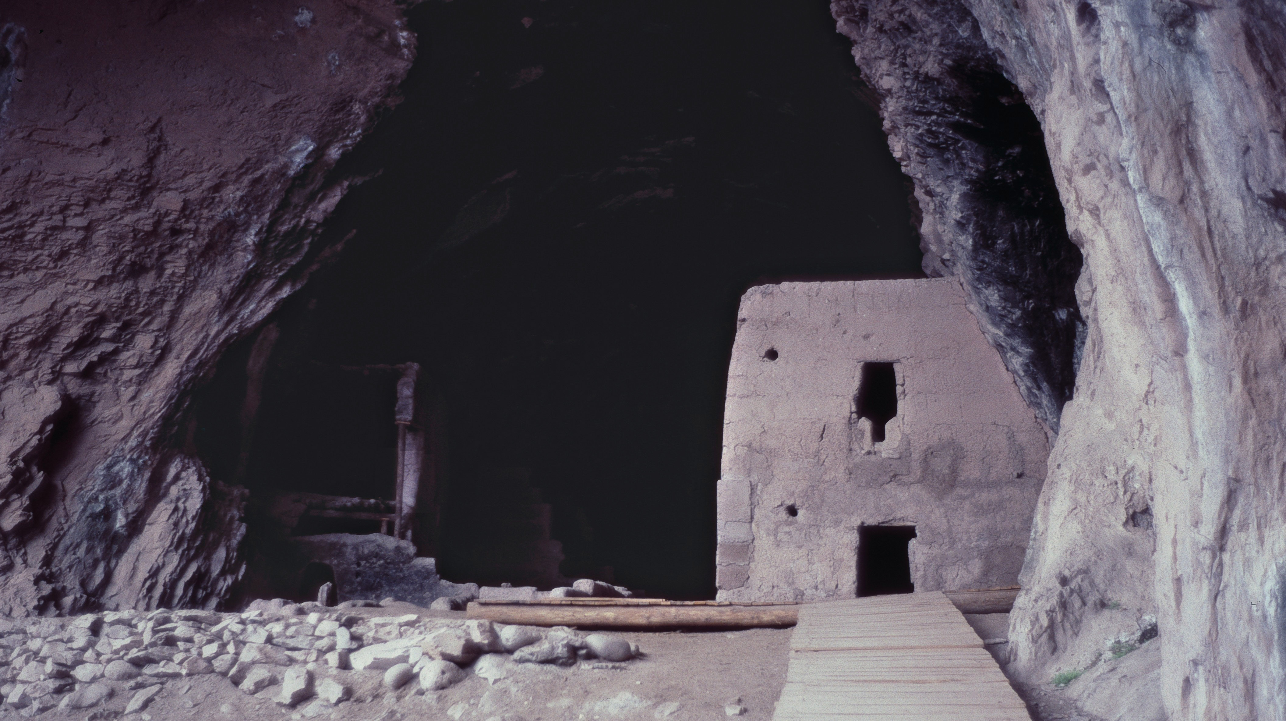 Cueva Grande, Chihuahua, Mexico